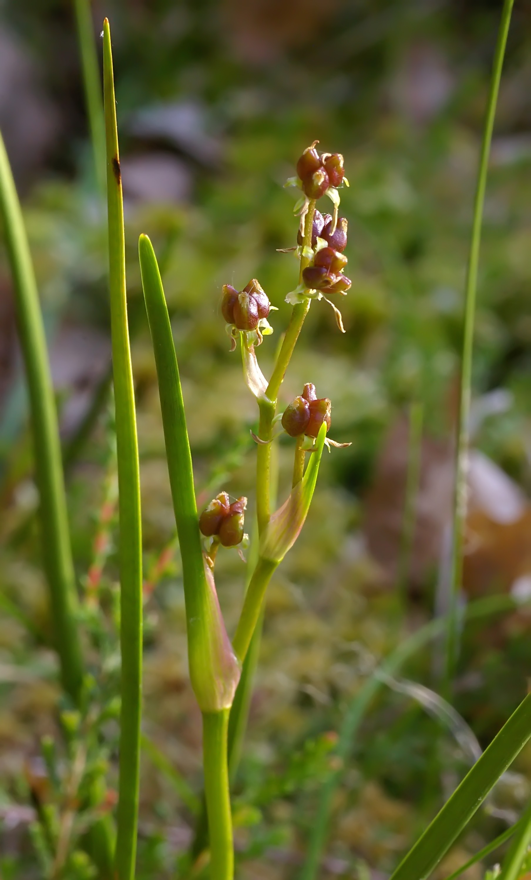 The plant Scheuchzeria palustris in a late stage of flowering (resp. beginning of fruiting).